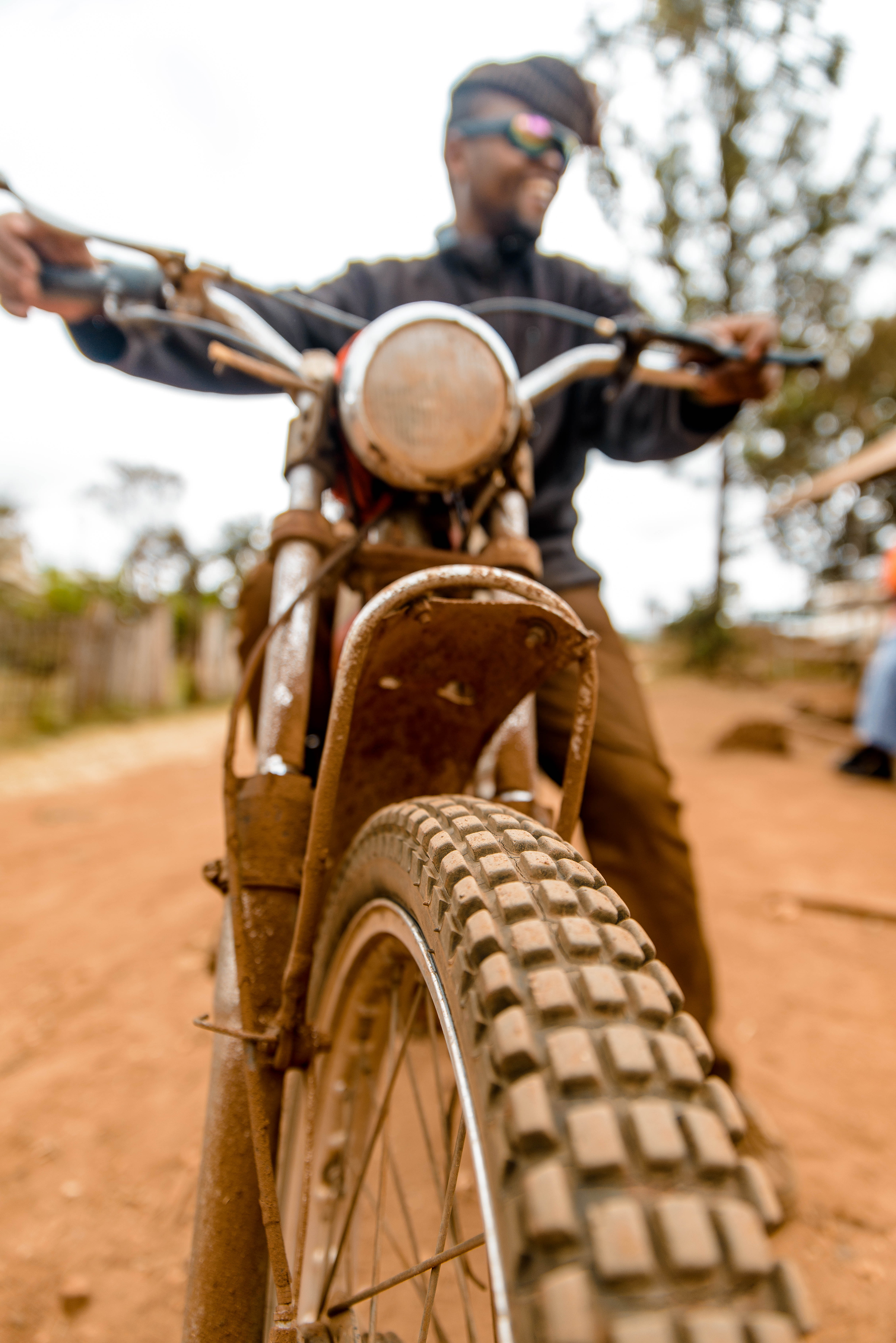 This is an image with the theme "Africa on the Move or Transport" from: Tanzania